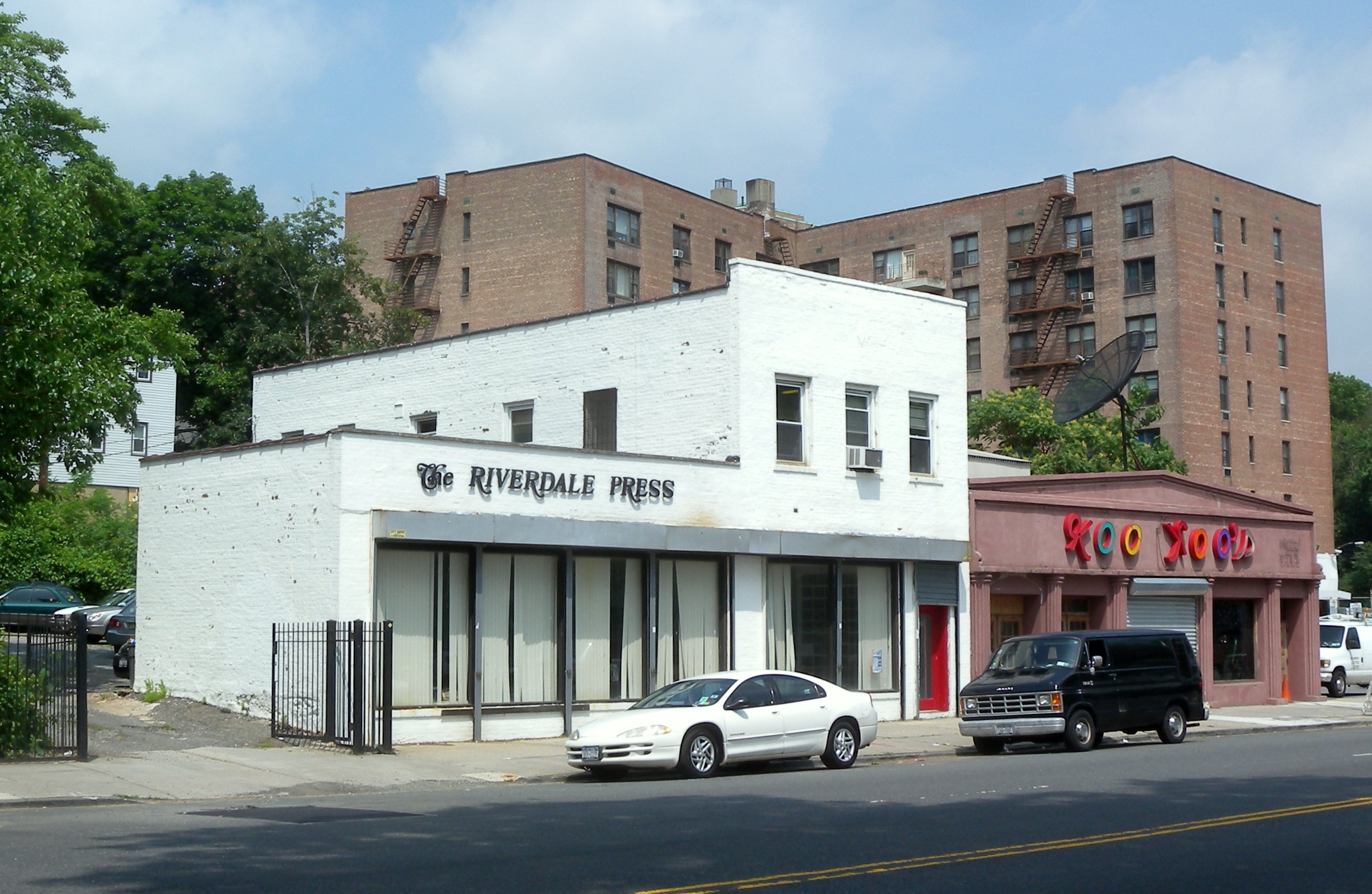 Looking northwest across Broadway at Riverdale Press building on a sunny morning.